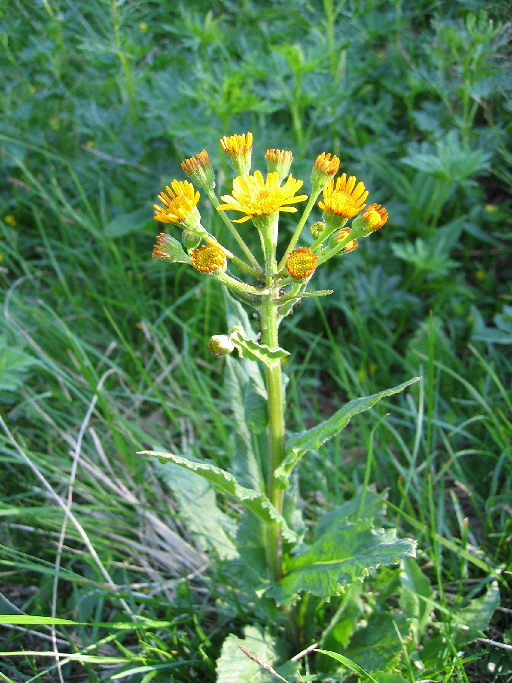 Senecio sp. This particular plant may in fact be a sub species of Senecio Congestus....Senecio congestus subsp. palustris (L.) Rauschert Compare to Tephroseris palustris Compare to Senecio congestus or ] senecio congestus] o senecio congestus with short ray flowers around disc. This image senecio spec plant has flowers in a cluster, and wavy leaves alternate on stem, but very long ray flowers around disc.